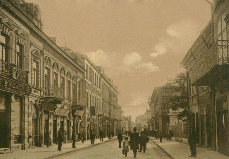 Iași (Jassy), Alexandru Lăpușneanu Street